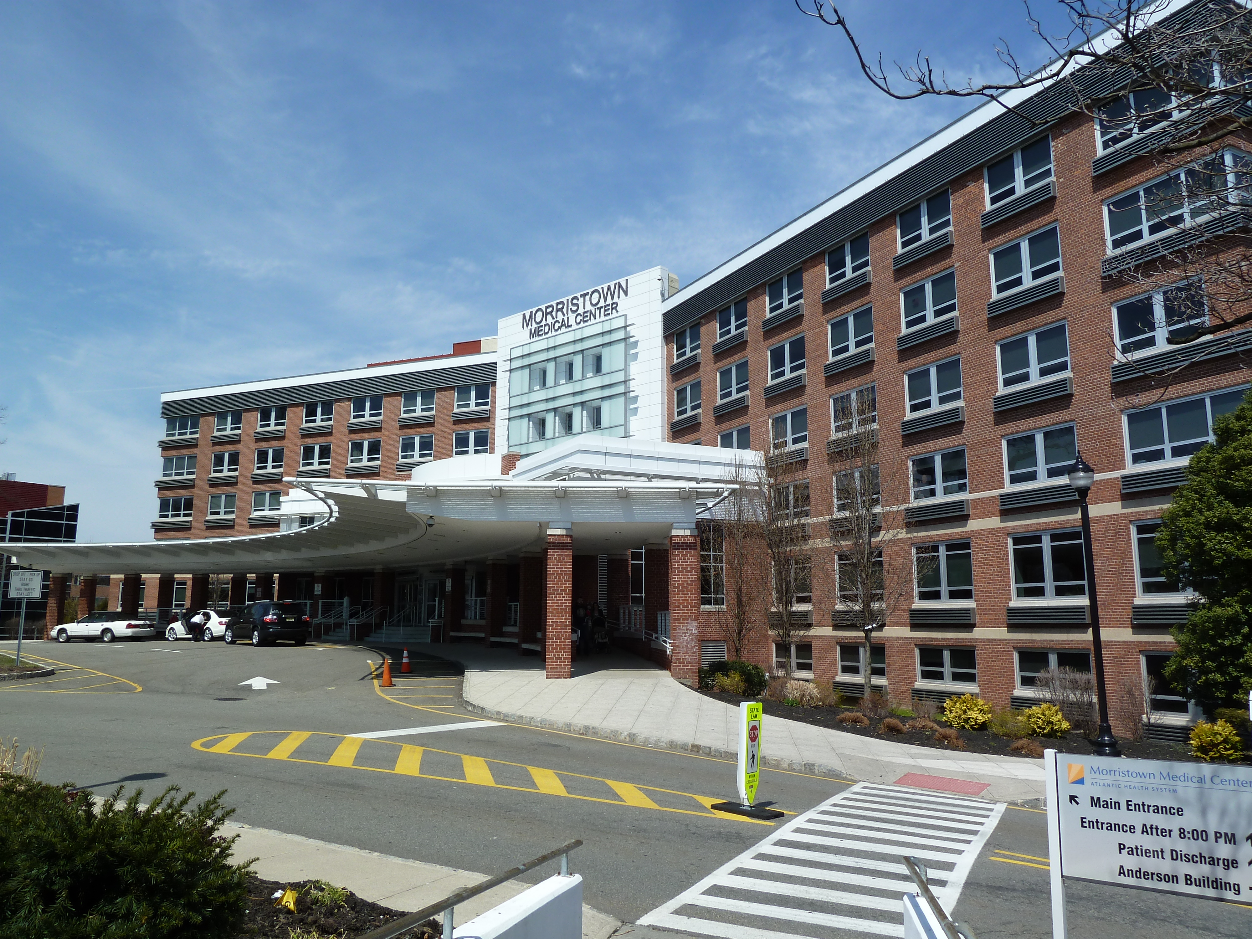 Main entrance, Morristown Memorial Hospital